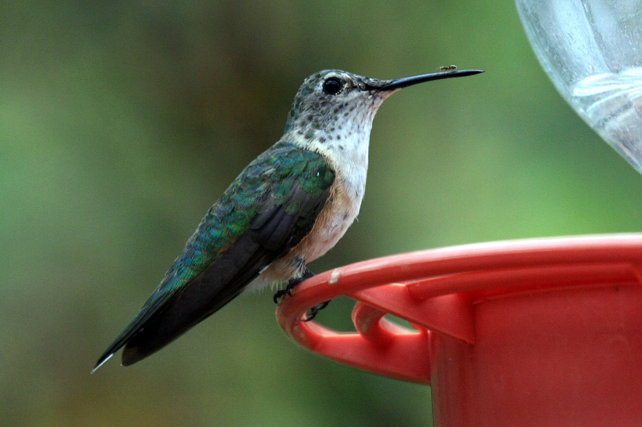 Selasphorus platycercus female, Arizona.